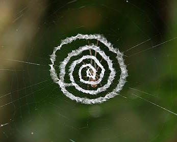 female stabilimentum of Octonoba tanakai from Okinawa.